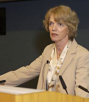 Patricia Churchland on NIH's STEP(The staff training in extramural programs) program 2005.